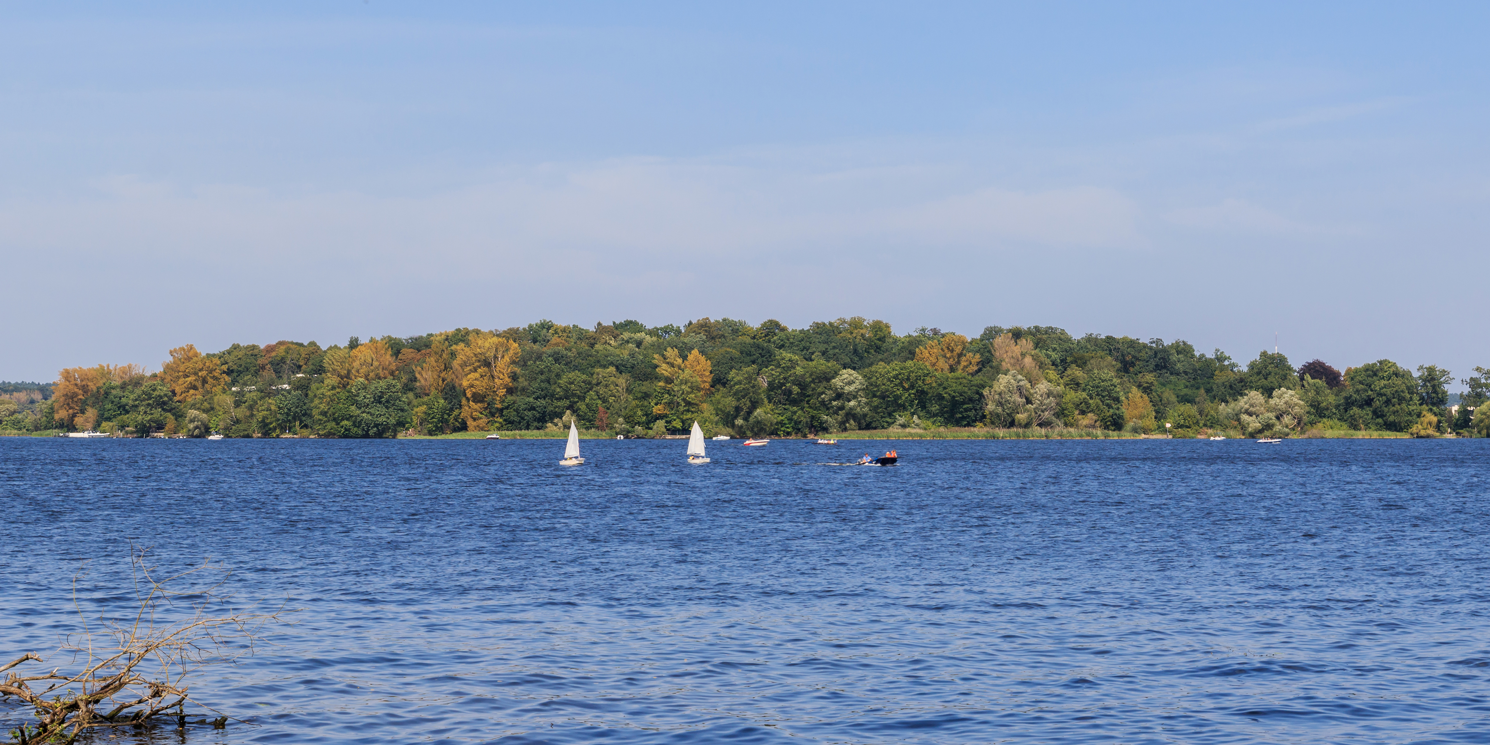 Remote view of Schwanenwerder Island in Berlin (Germany)